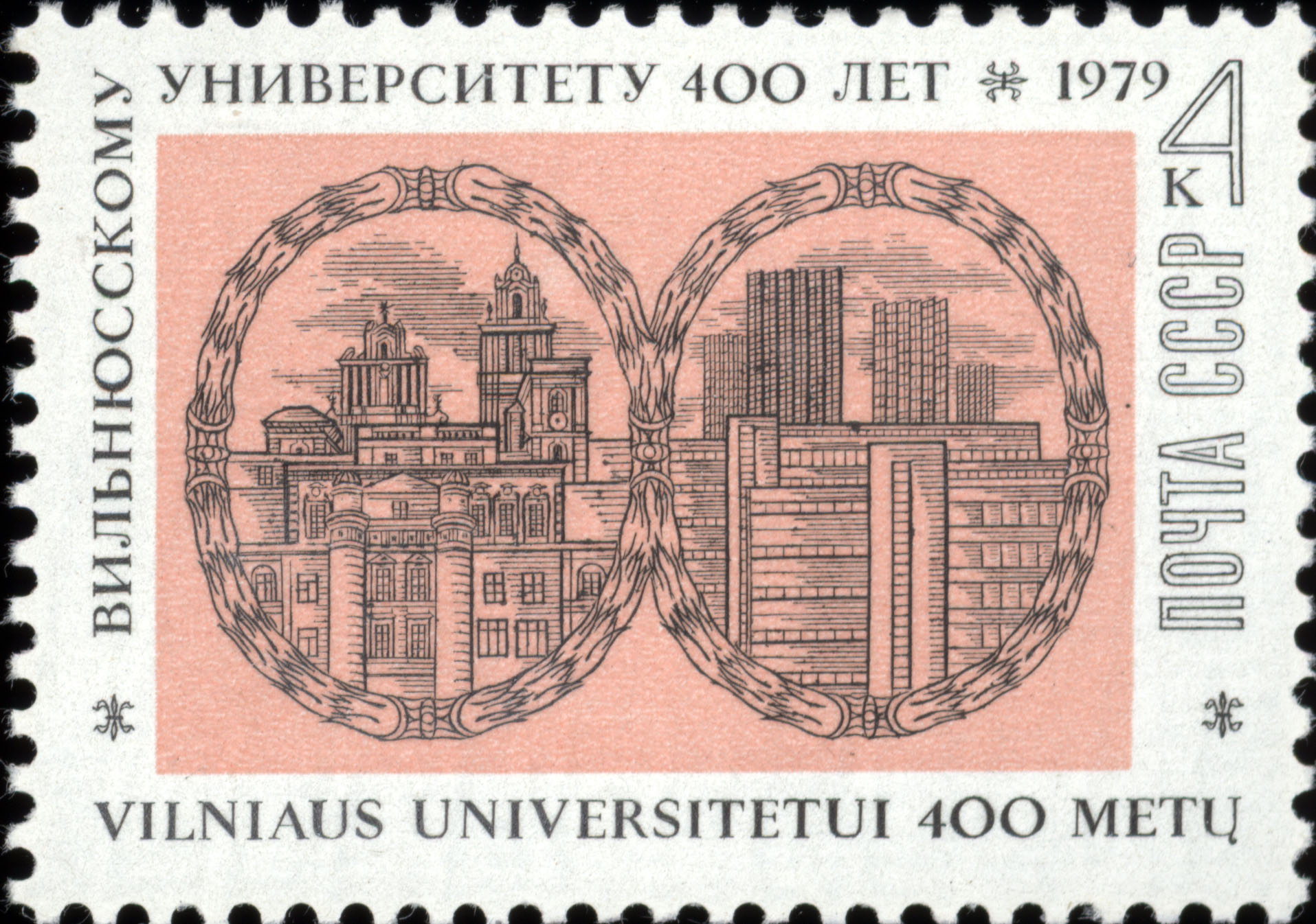 USSR stamp dedicated to 400th anniversary of Vilnius University. Old and new buildings of the University